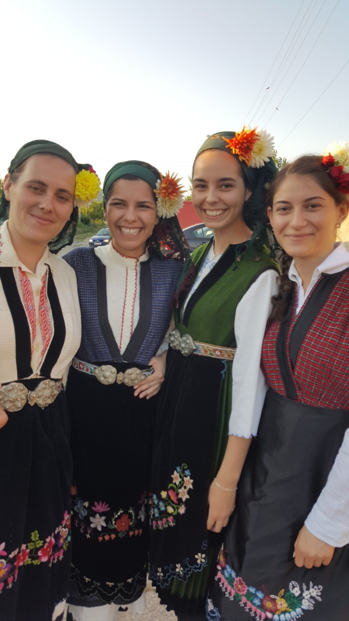 Young women in costume